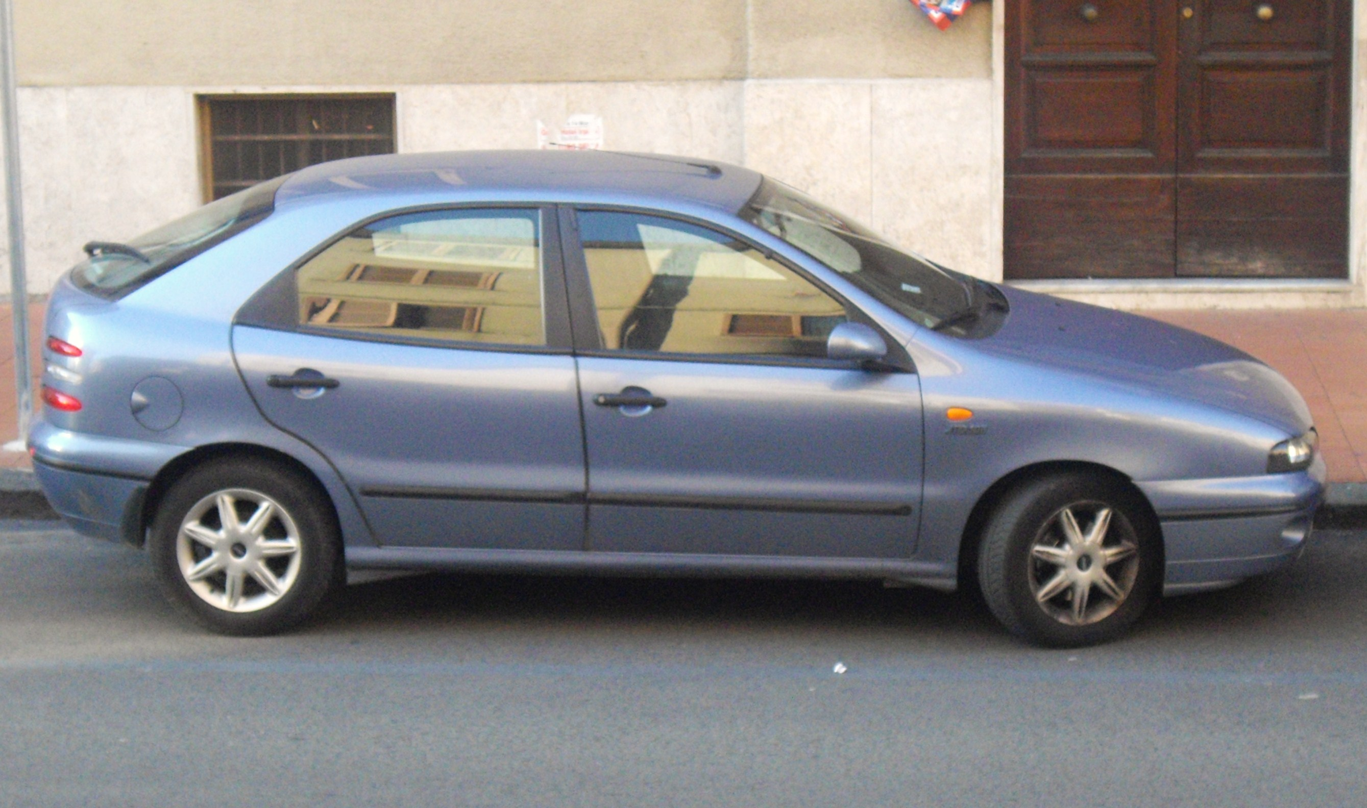 Fiat Brava